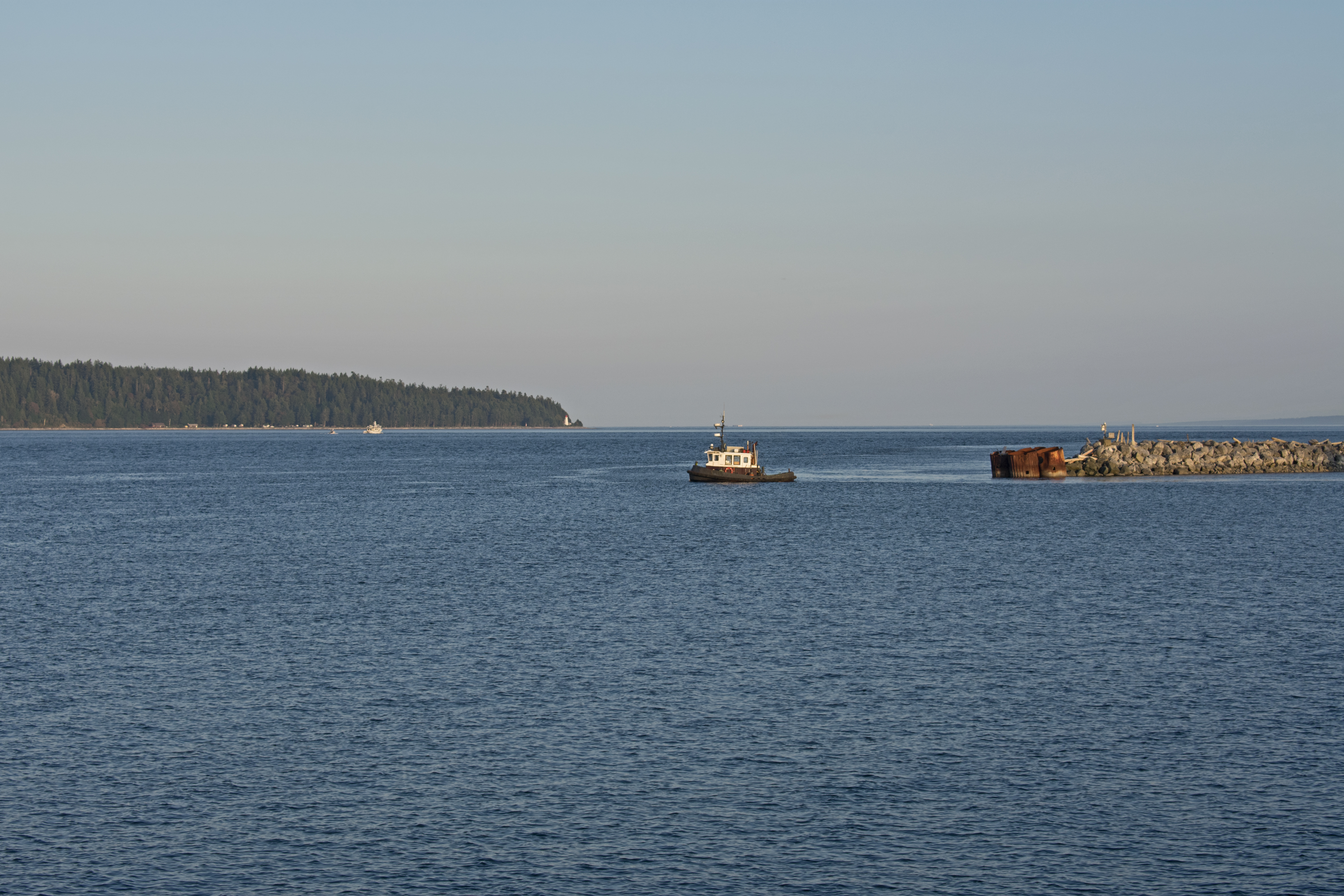 Fisherman's Wharf, Campbell River